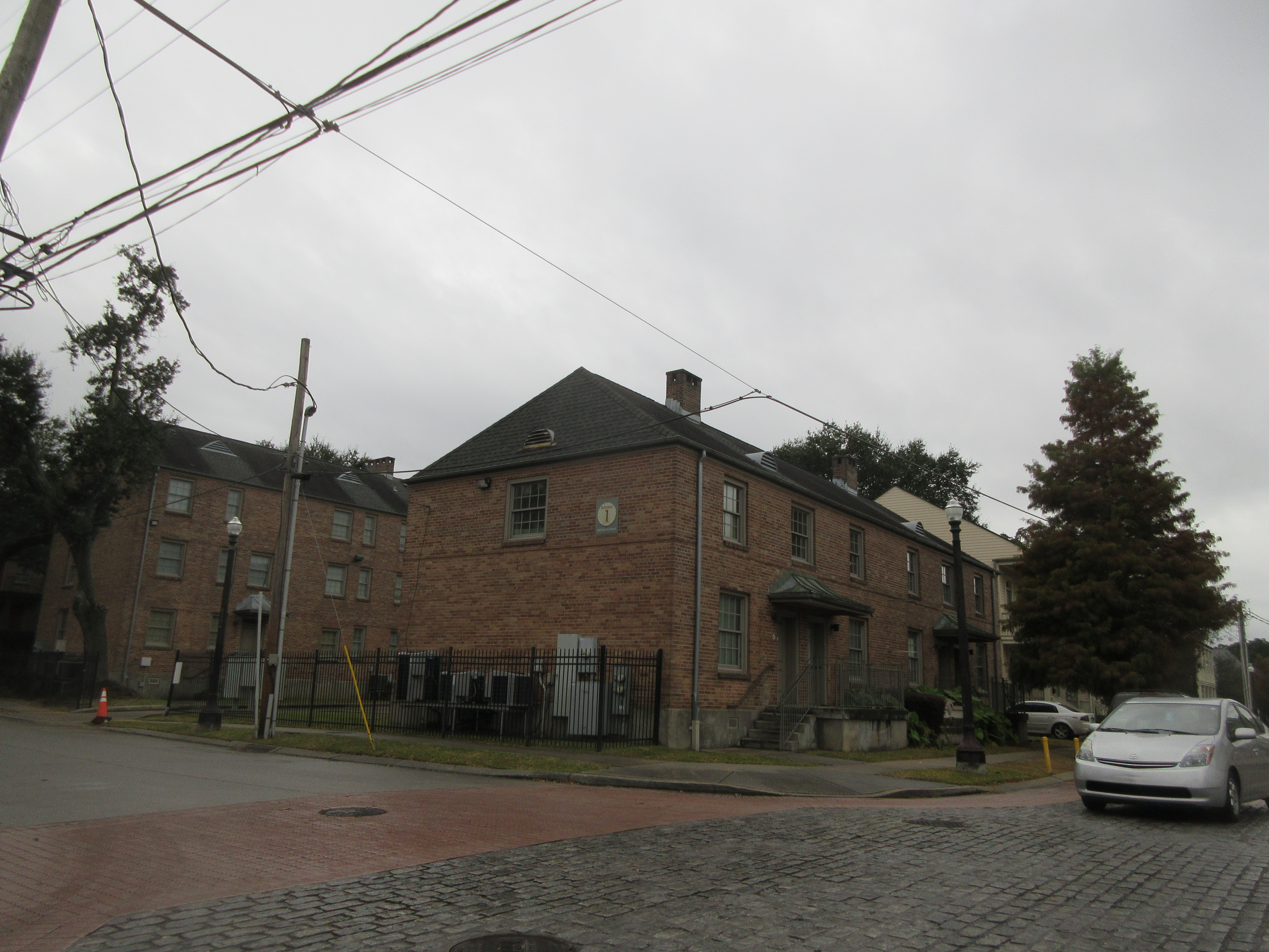 Surviving buildings from old St. Thomas Projects, New Orleans. Photo by Infrogmation of New Orleans, November 2018. Free reuse with author attribution in accordance with any of the licenses listed by the author/photographer. Reuse without photo attribution is a violation of copyright.